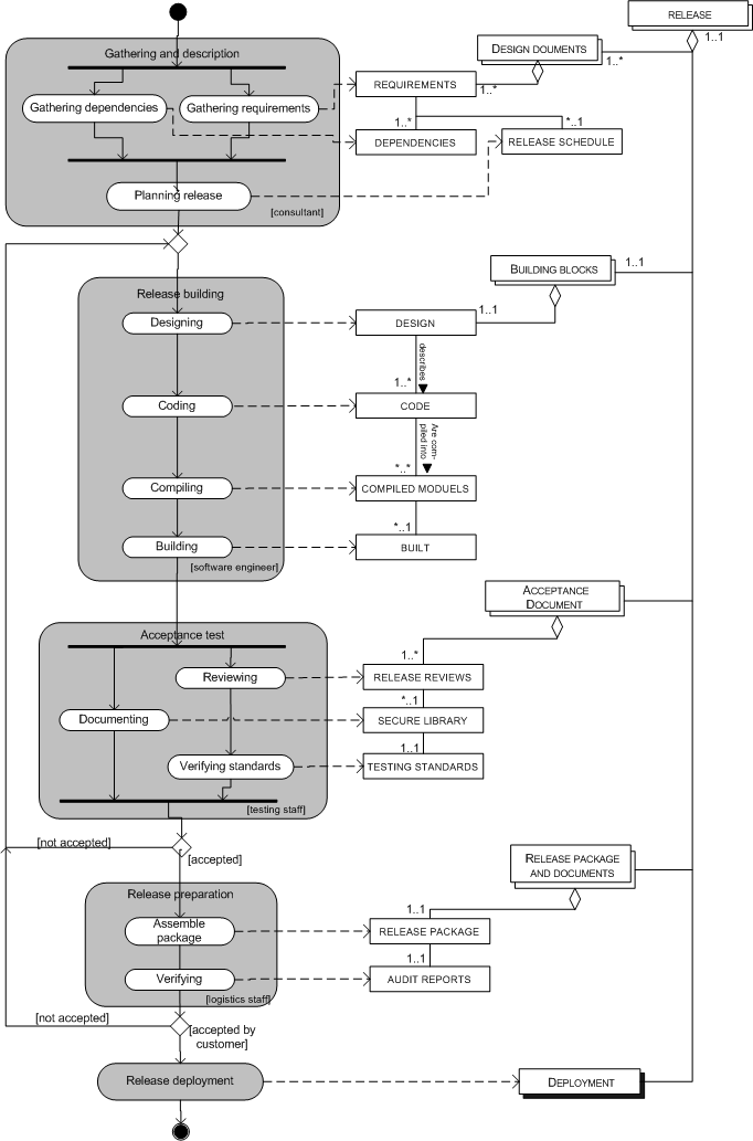 This file is created by myself, and is free of licence. Meta-data model of the Release management method.